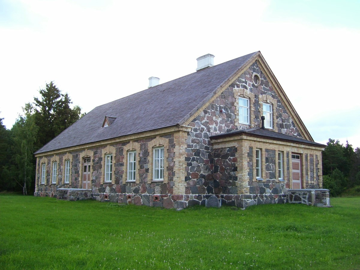 The old school building in Kuri, Pühalepa Parish, Hiiu County, Estonia